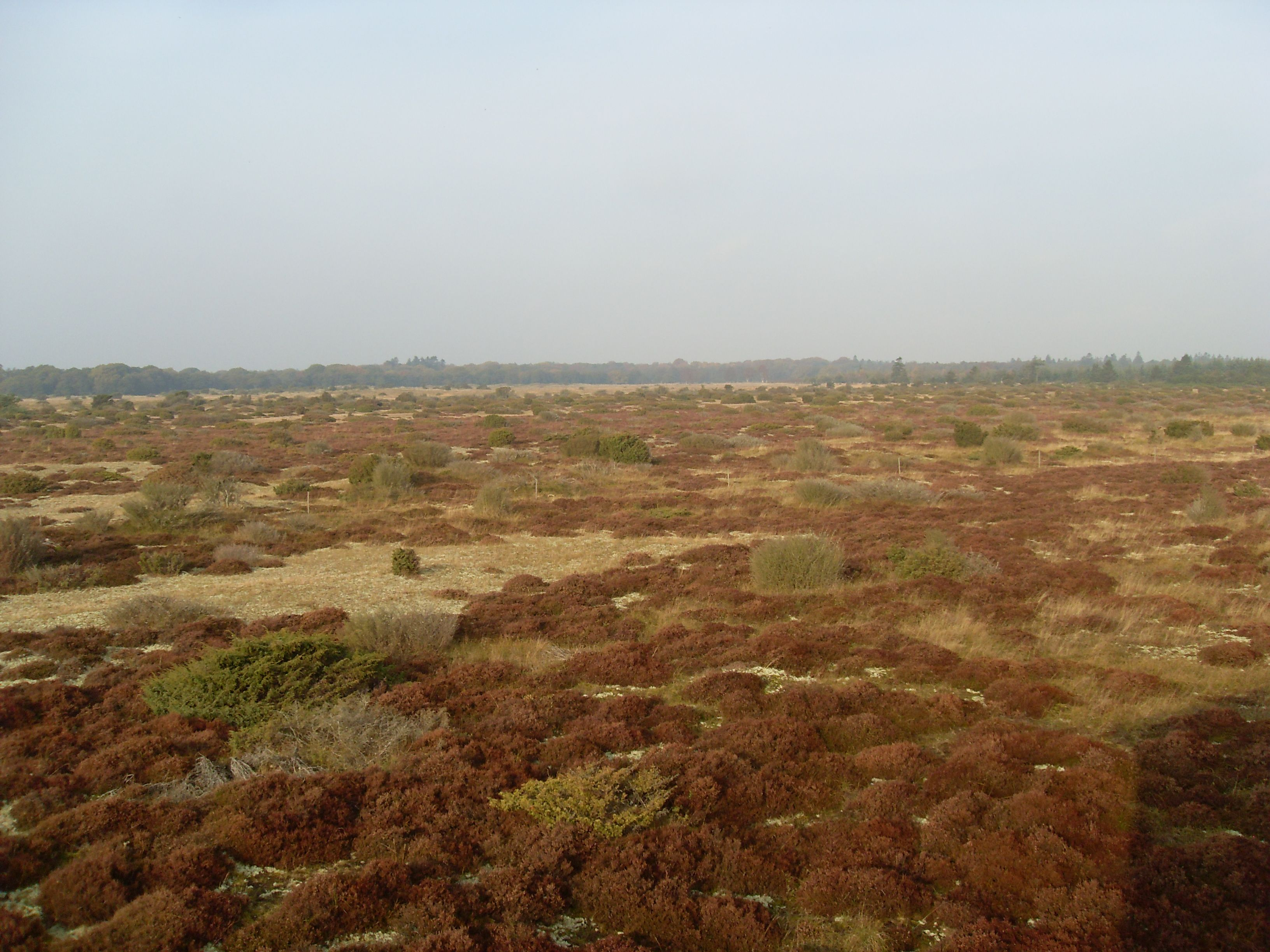 Lille Vildmose from watch tower